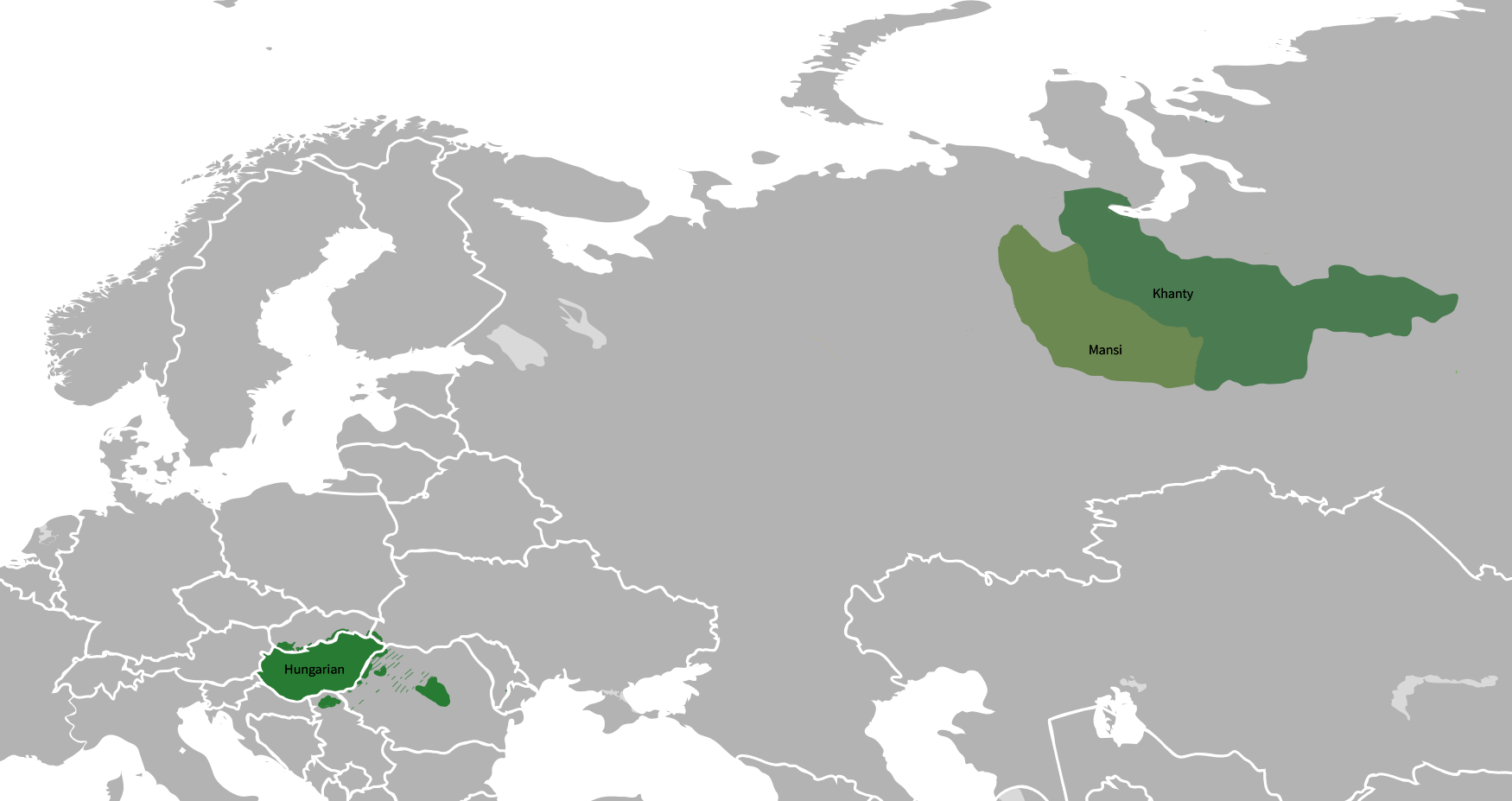 The distribution of the Ugric langues.